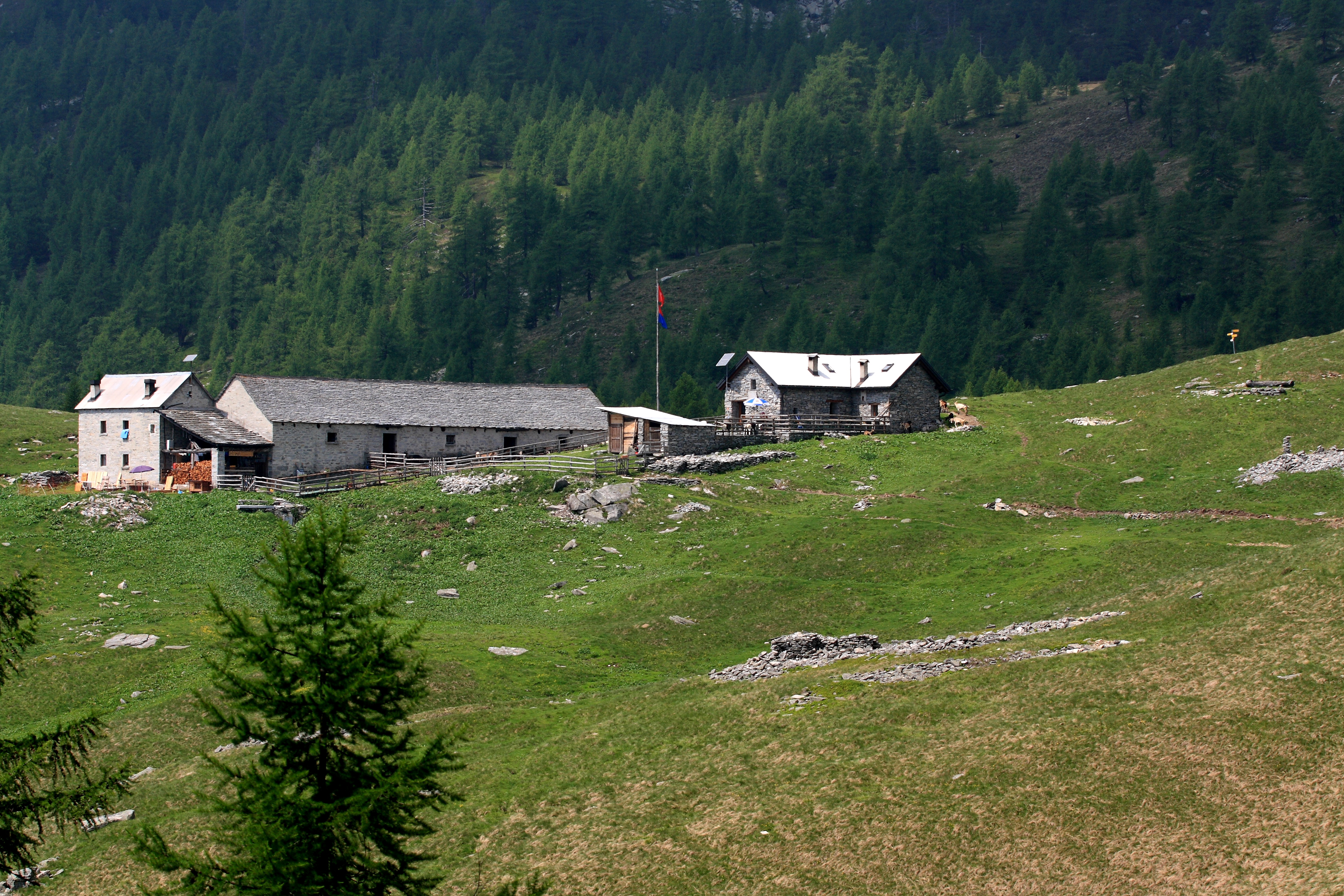 Alpe Salei, Ticino, Switzerland